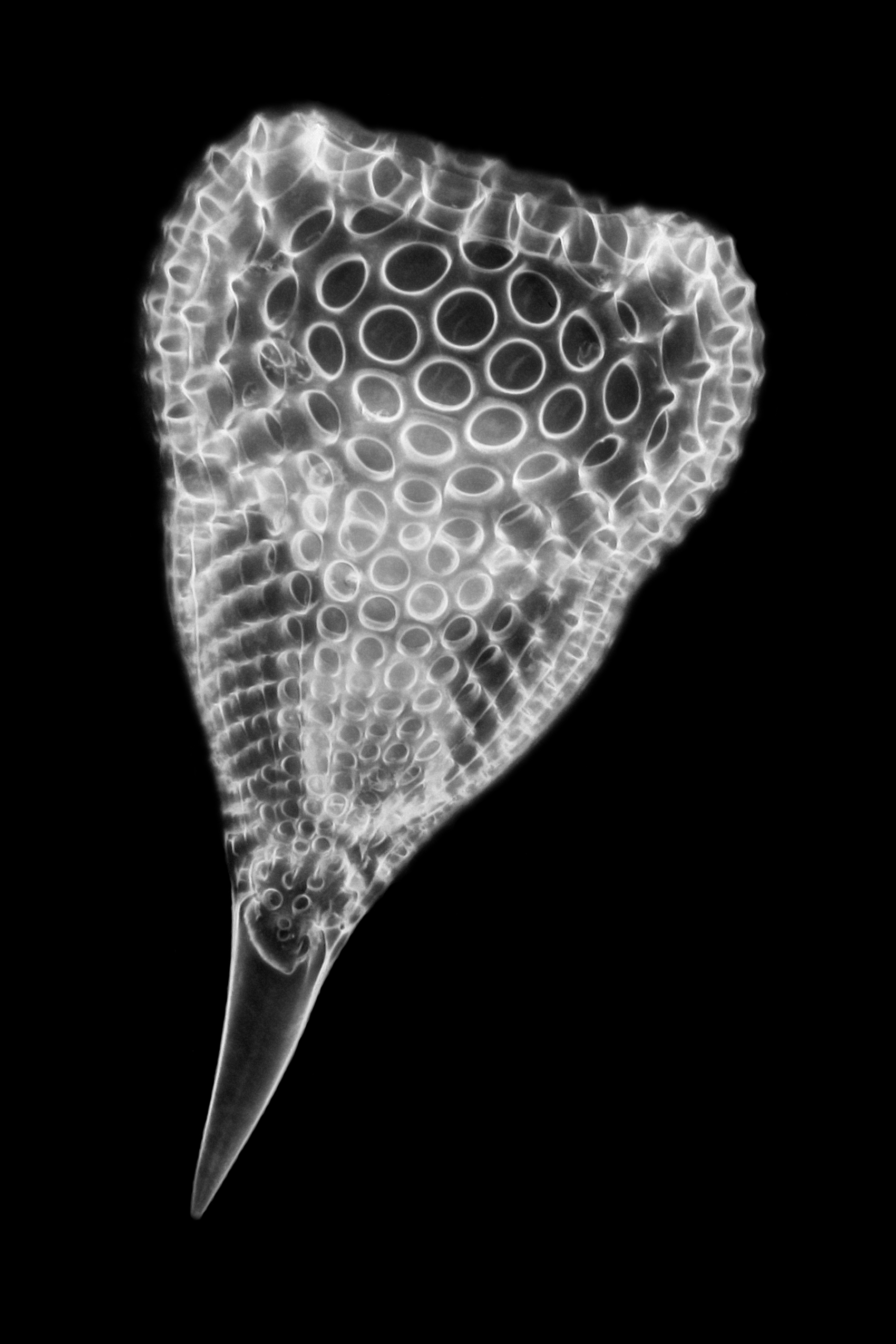 160x magnified, stacked image, bright field (negative image) Fundort / Site: Barbados (sediment sample) Alter / Age: fossil (Middle Eocene to Oligocene) Präparation / Preparation: Andreas Drews, 2015